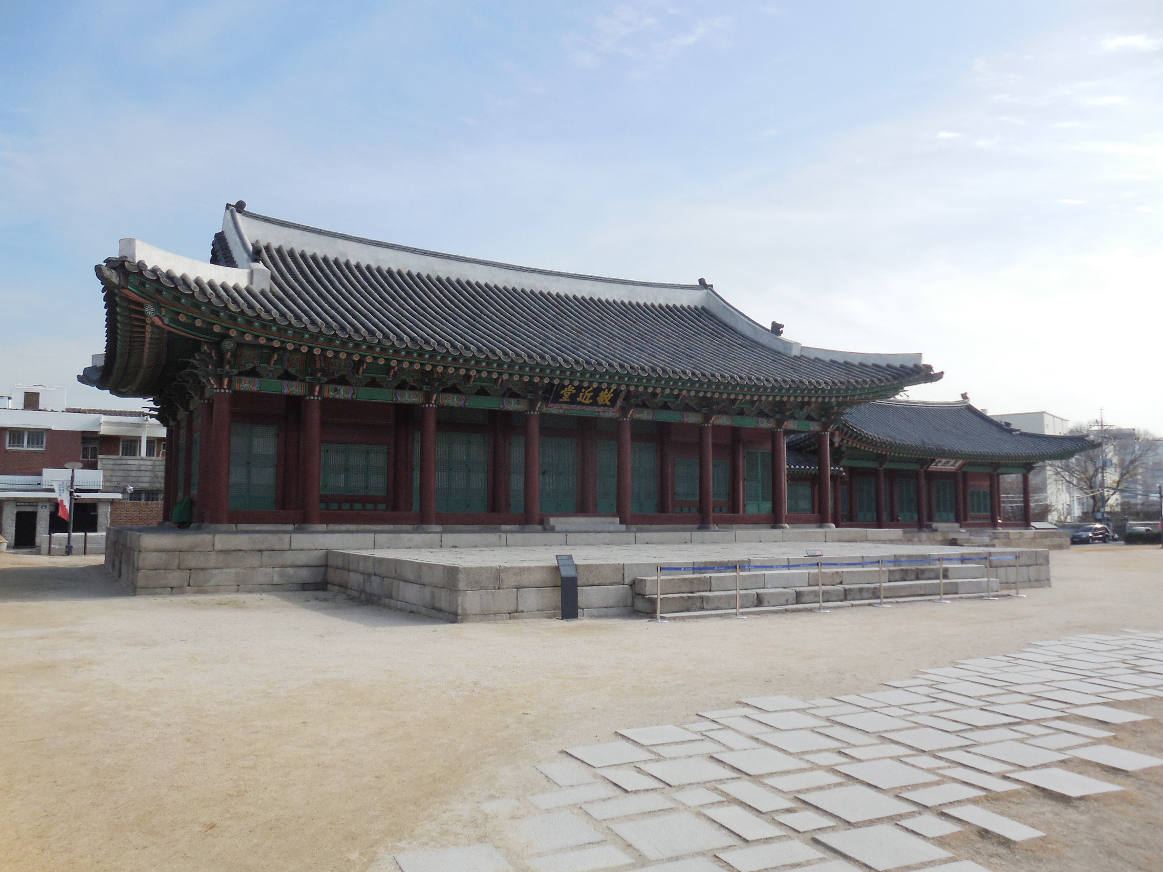 Jongchinbu Gyeonggeundang.